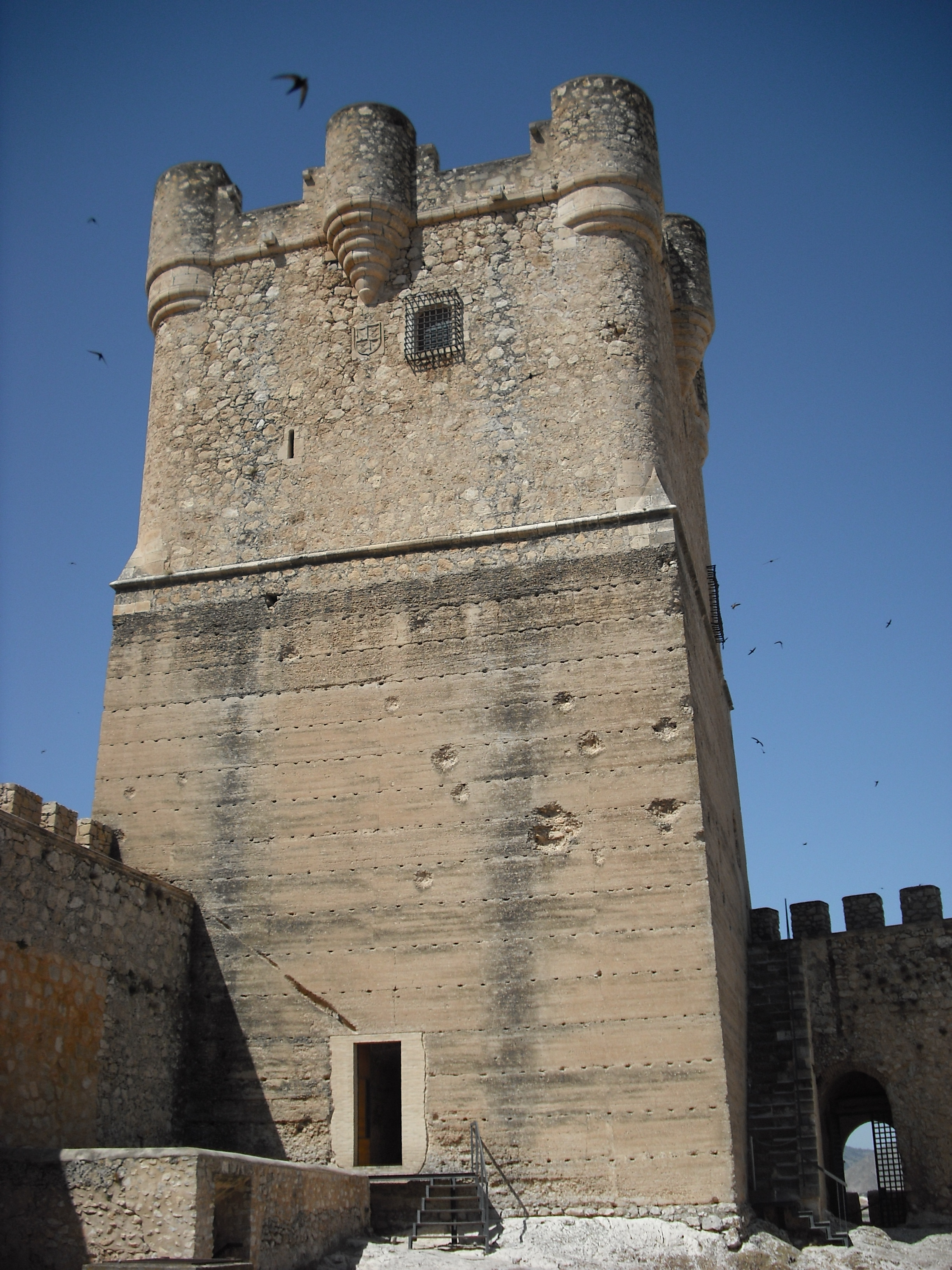 Keep of the Atalaya Castle, Villena.